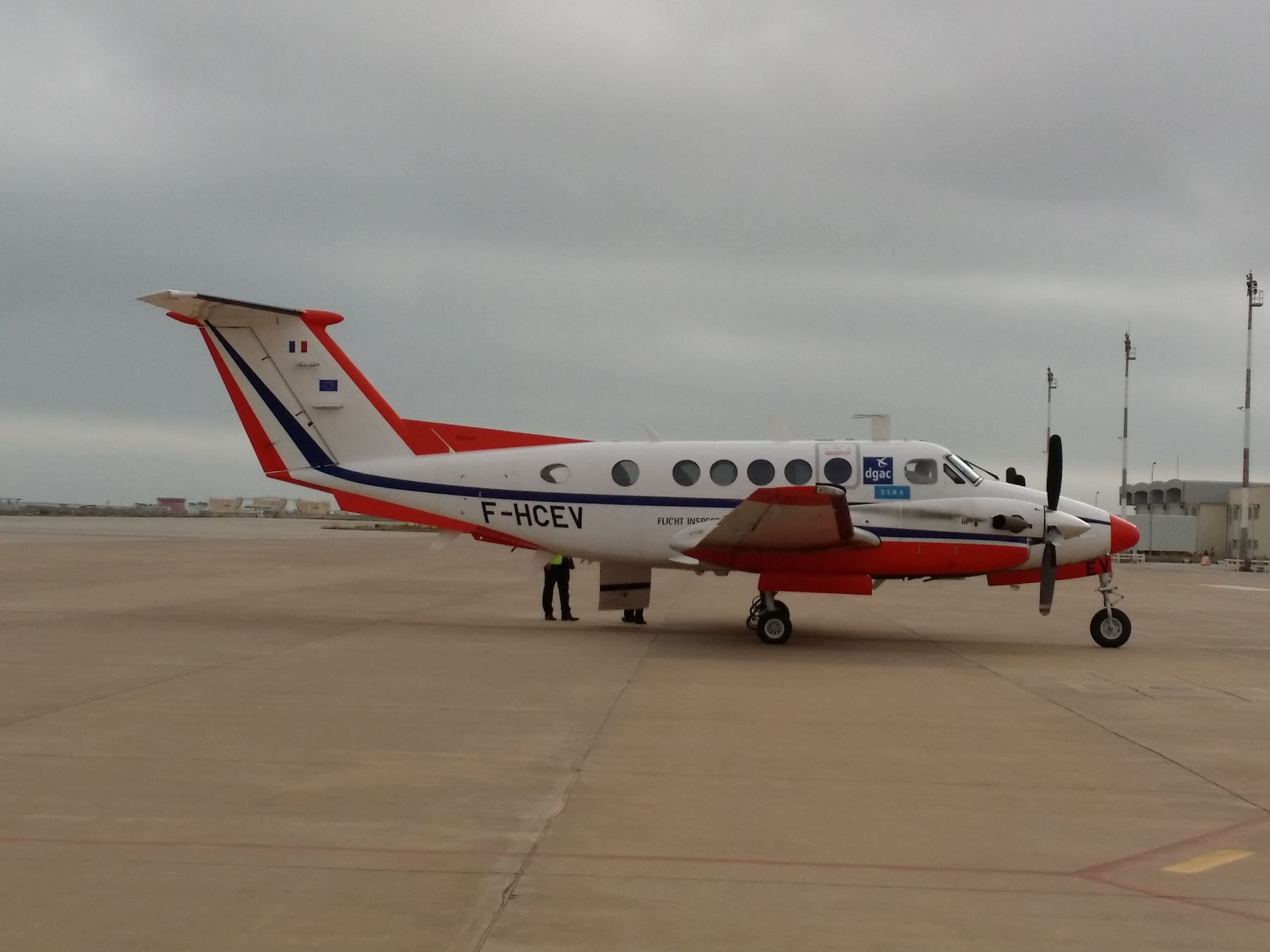 Instrument Landing System (ILS) flight inspections aircraft